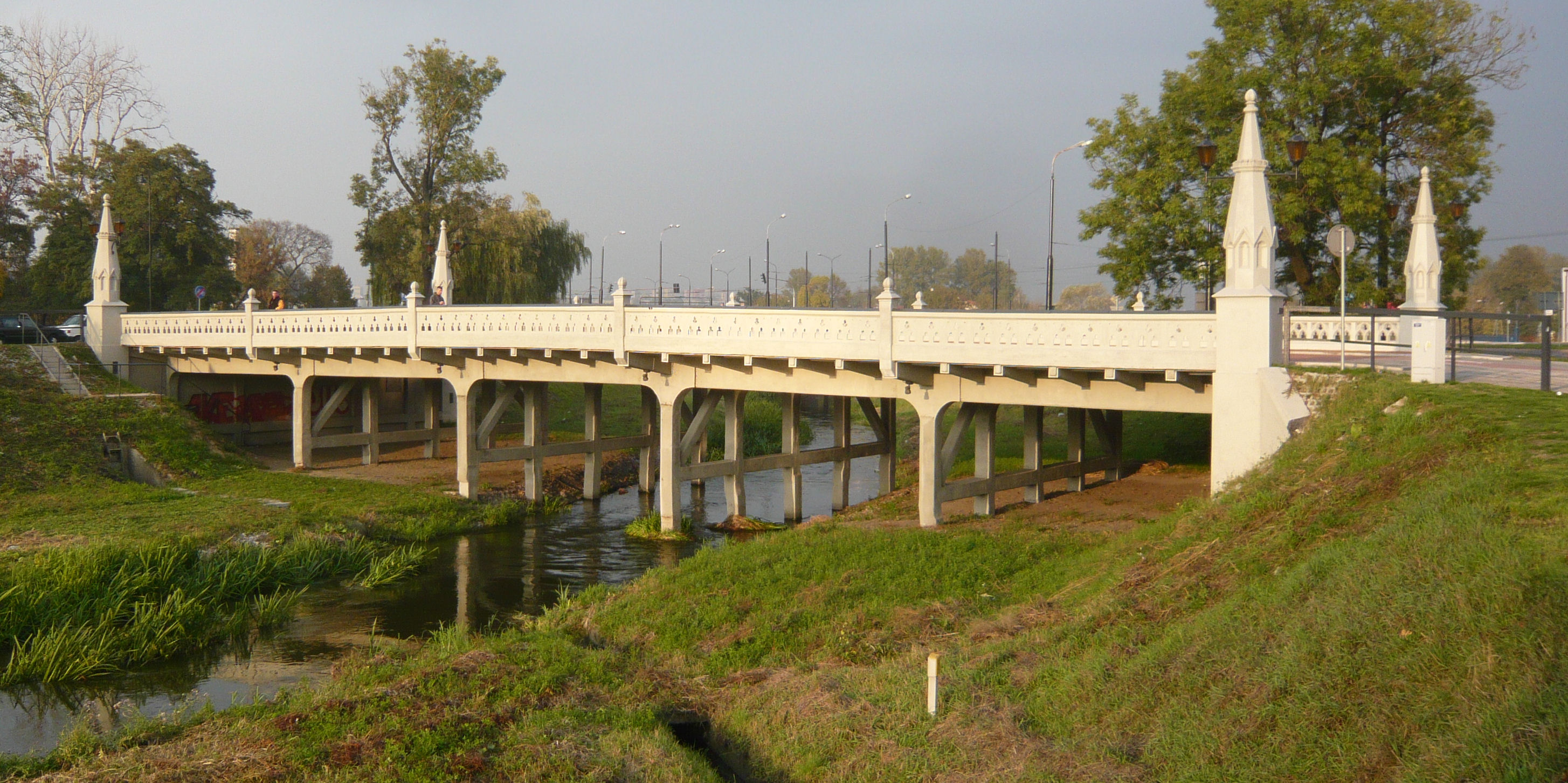 Bridge over Bystrzyca in Lublin